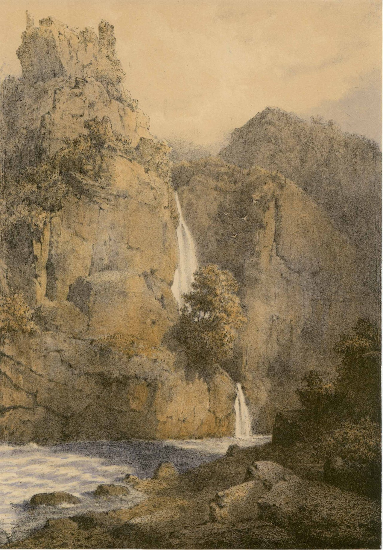 Lithograph showing the Fingellerschlössl/Walbenstein Castle, a medieval castle ruin in the South Tyrol's Sarntal valley, along with the Fingeller waterfall